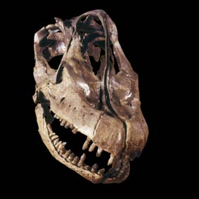 Dinosaur picture taken at the Museum für Naturkunde Berlin